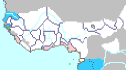 Map of the Guinea Coast and interior West Africa in 1882 at the beginning of colonial expansion. Blue=French, Pink=British, Green=Portuguese, Yellow=Spanish